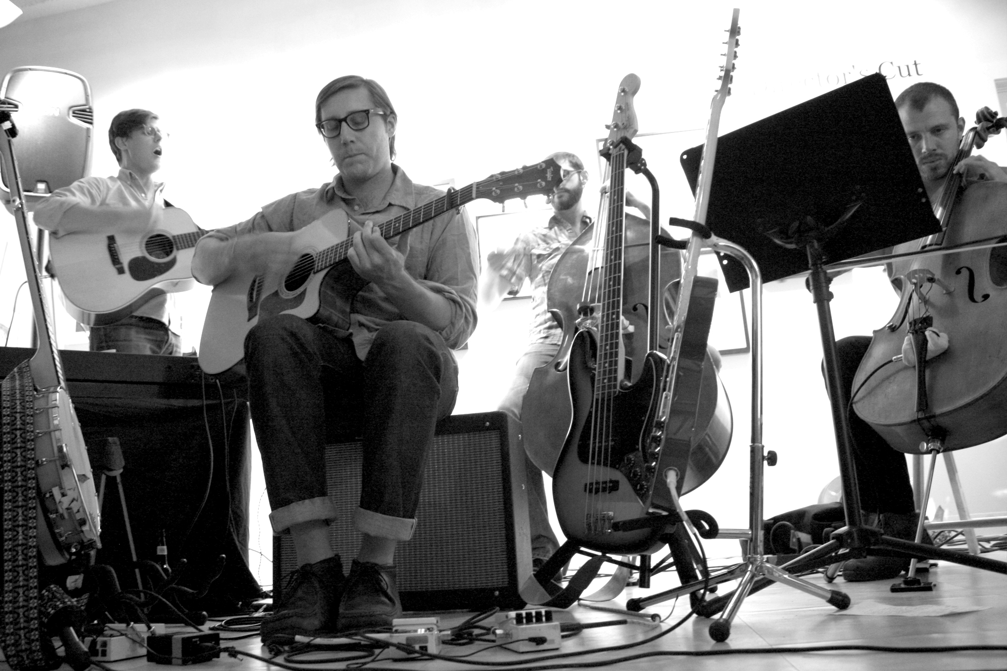 Balmorhea live at the Pyramid Atlantic, Silver Spring MD 10sept10. Event curated by DC Sonic Circuits.